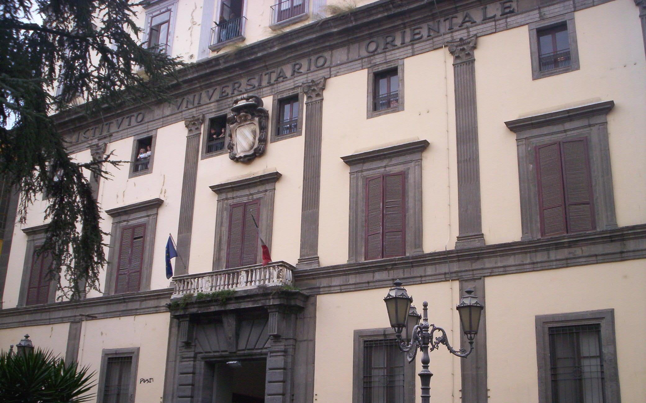 Created on 14 December 2005